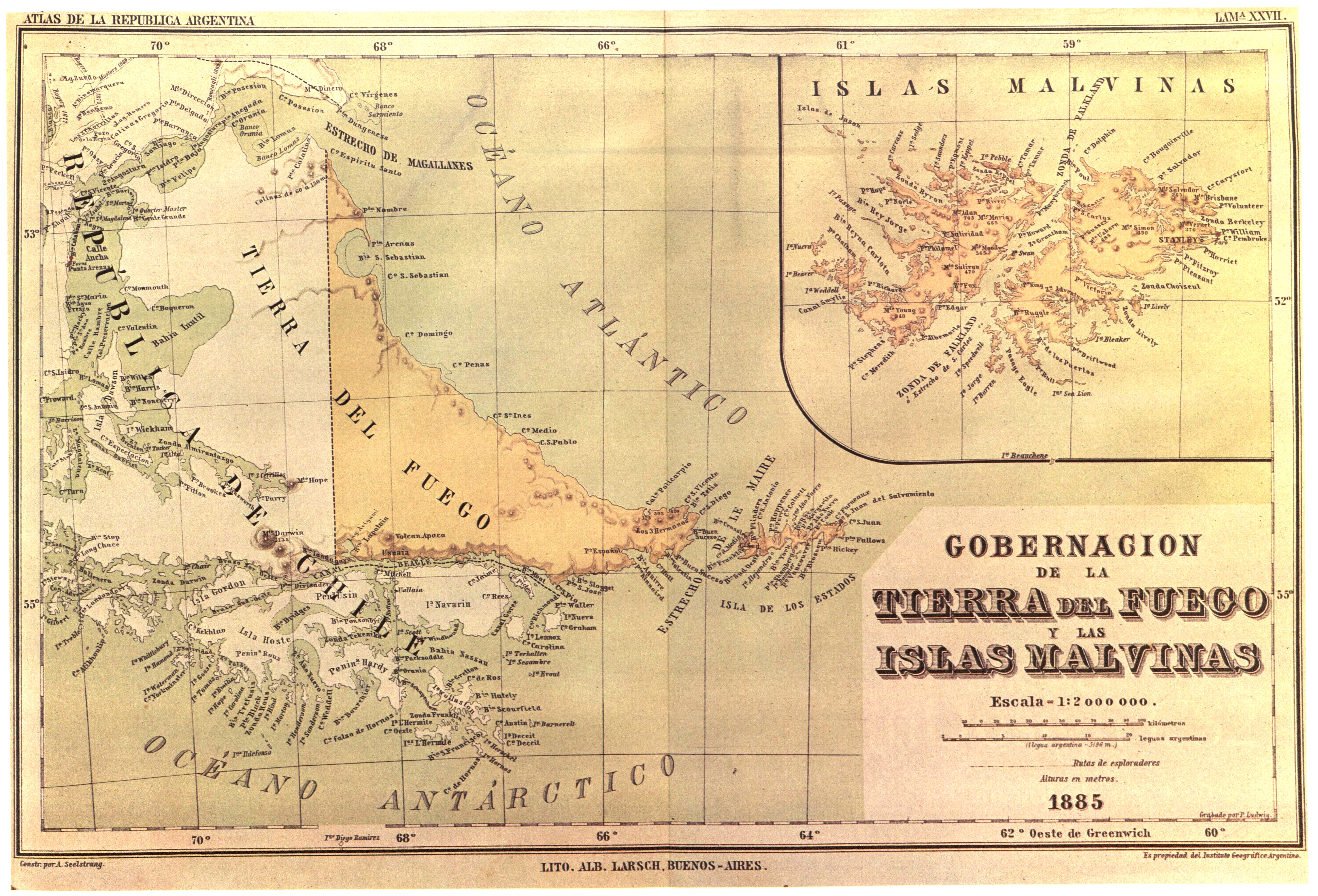 "In 1882 the Argentine Geographic Institut decided to issue a general map and a atlas of the Argentine Republic. The task was put in the hands of the well known Profesor of the University of Cordoba, Arturo Seelstrang, who had already brought out a map of the Republic in 1875. The Atlas was 'constructed and published' by the institute 'under the auspices of the National Government'. Plate XXVII of the Atlas, reproduced here, was headed 'Governoship of Tierra del Fuego and the Malvinas Islands' and were drawn up in 1885 and published the following year. As may be observed, said map shows the boundary line running through the centre of the Beagle Channel, indicating Picton, Nueva and Lennox Islands an all the other islands and islets extending southwards as far as Cape Horn as being under Chilean sovereignty."